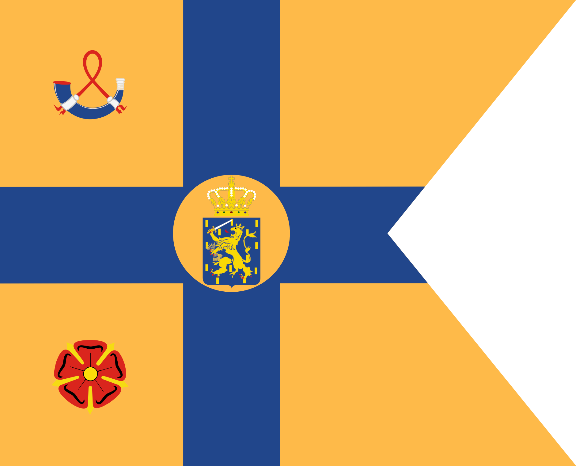 Standard of the Princesses of the Netherlands - Daughters of Queen Juliana.